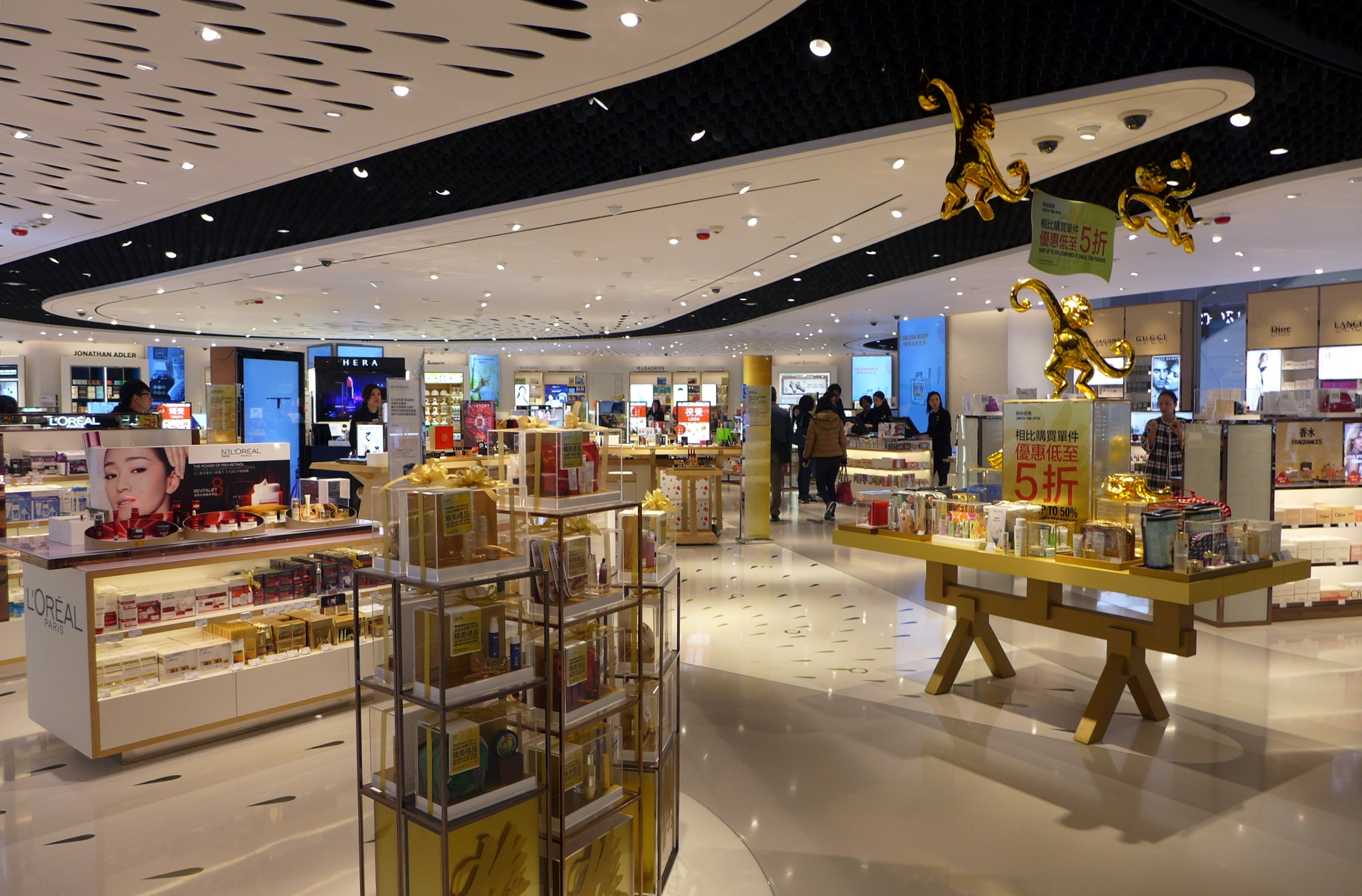 Hysan Place B1 T Galleria